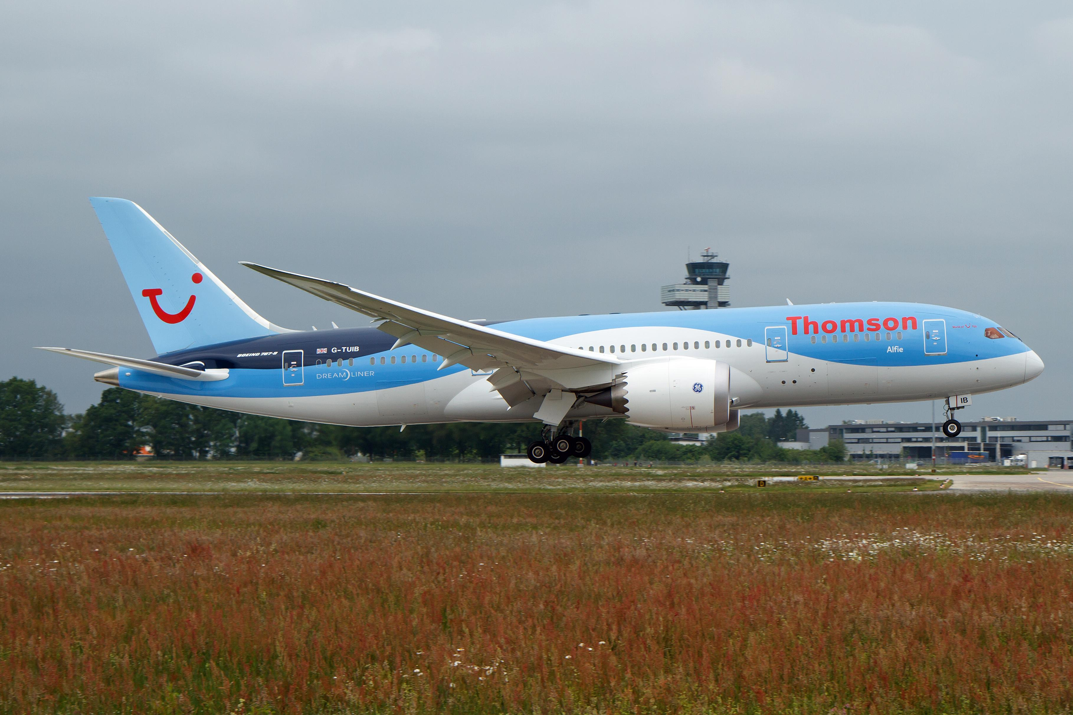 Thomson Airways Boeing 787 G-TUIB